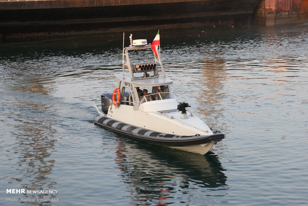 BANDAR ABBAS, Dec. 04 (MNA) – The formal ceremony of delivering new marine and submarine vessels to the Iranian Navy was held in the port city of Bandar Abbas, southern Iran, on Tuesday in the presence of Navy Commander Rear Admiral Hossein Khanzadi.